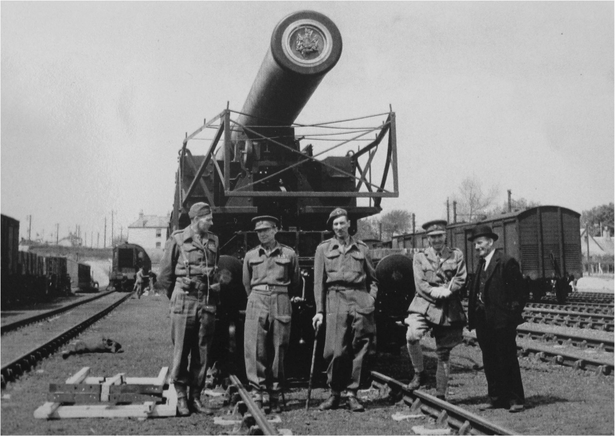 British BL 18 inch railway howitzer at Halwill Junction, before firing into Okehampton Artillery Range.